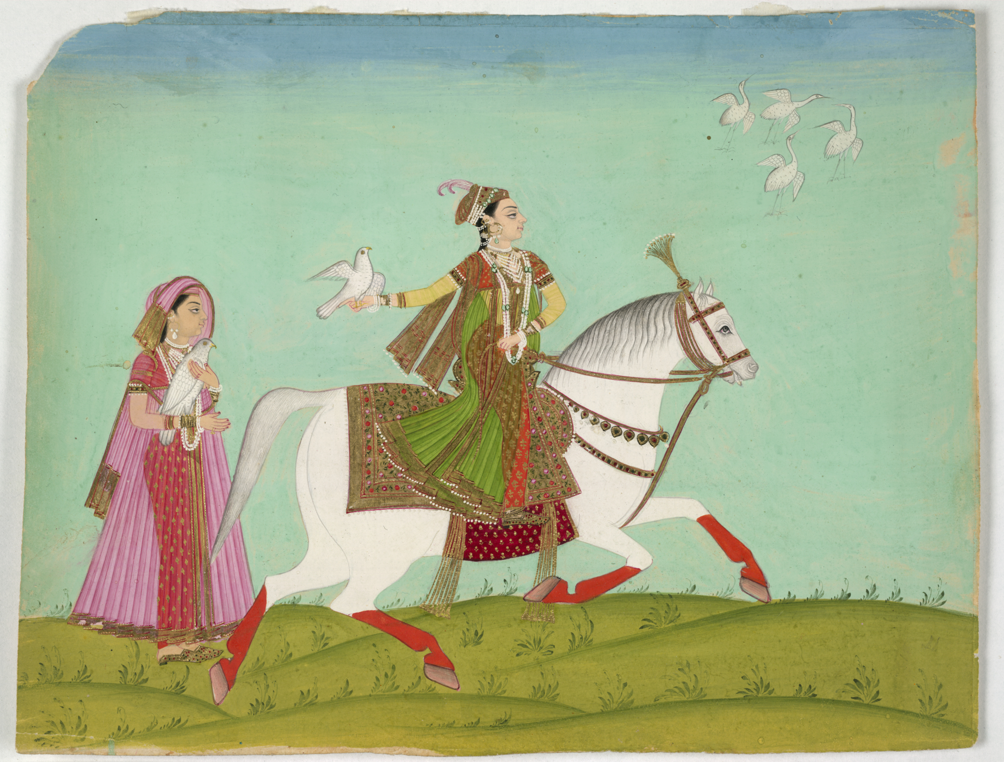 Chand Bibi (d.1599, wife of 'Ali 'Adil Shah I of Bijapur) is out hawking on a white horse; Hyderabad, c.1800* (BL)